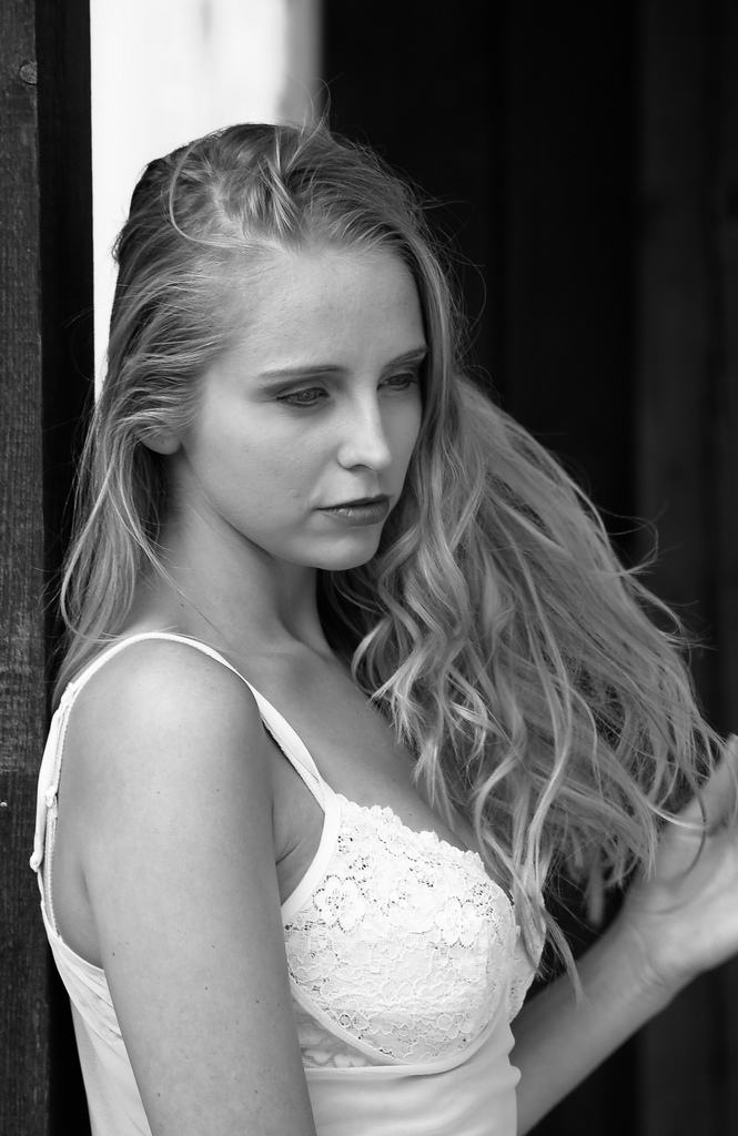 Miriam black and white. From Vienna.